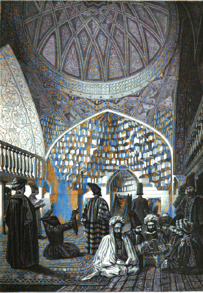 Azerbaijanis in prayer